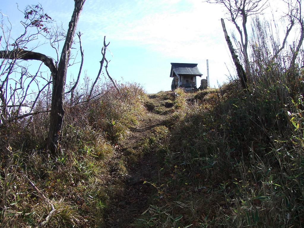 Summit of Mount Kumoso